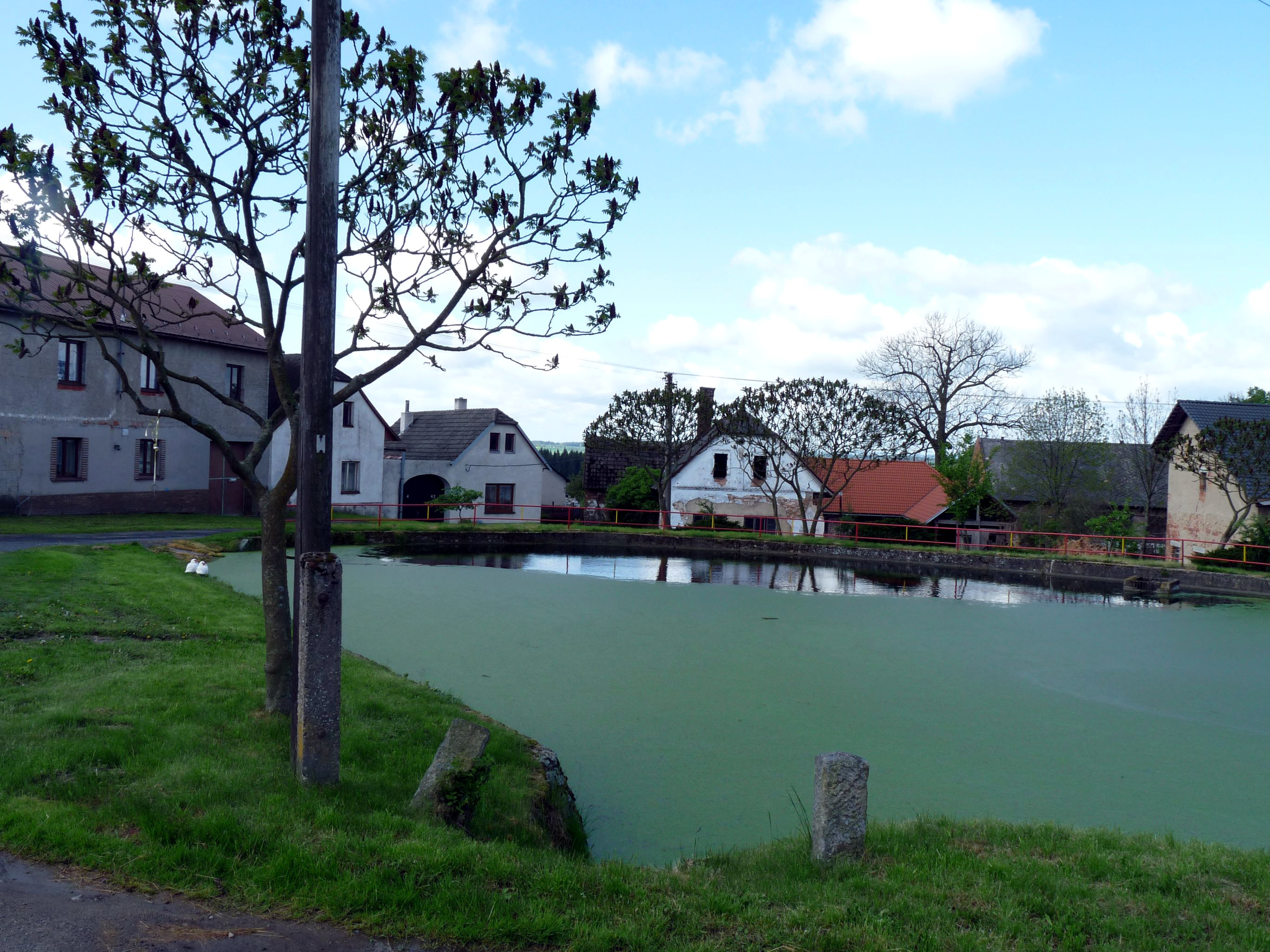 Village pond in the village of Hřiště, Havlíčkův Brod District, Vysočina Region, Czech Republic.